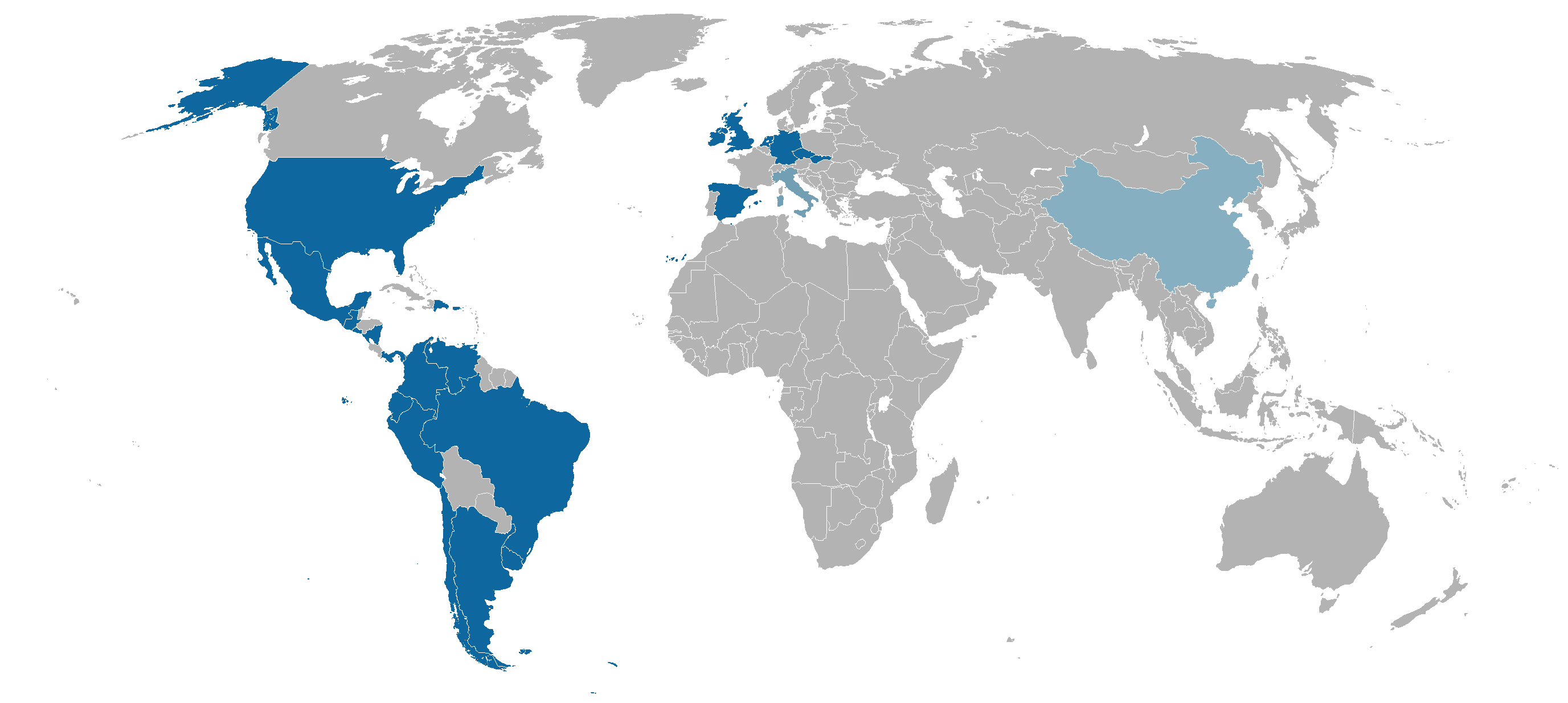 Telefónica's global operations